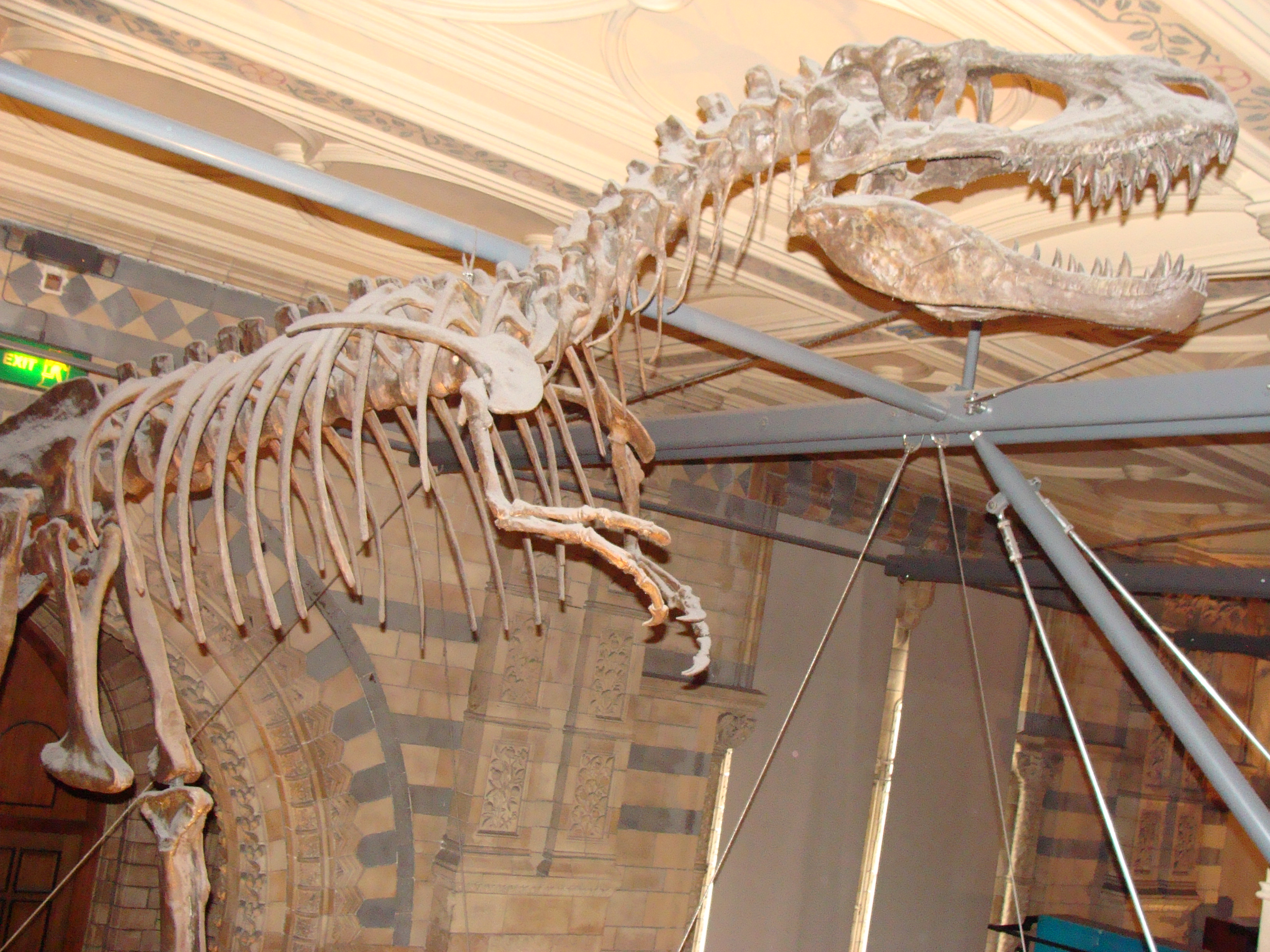 Gorgosaurus libratus (Albertosaurus libratus is a synonym) in the Natural History Museum of London.